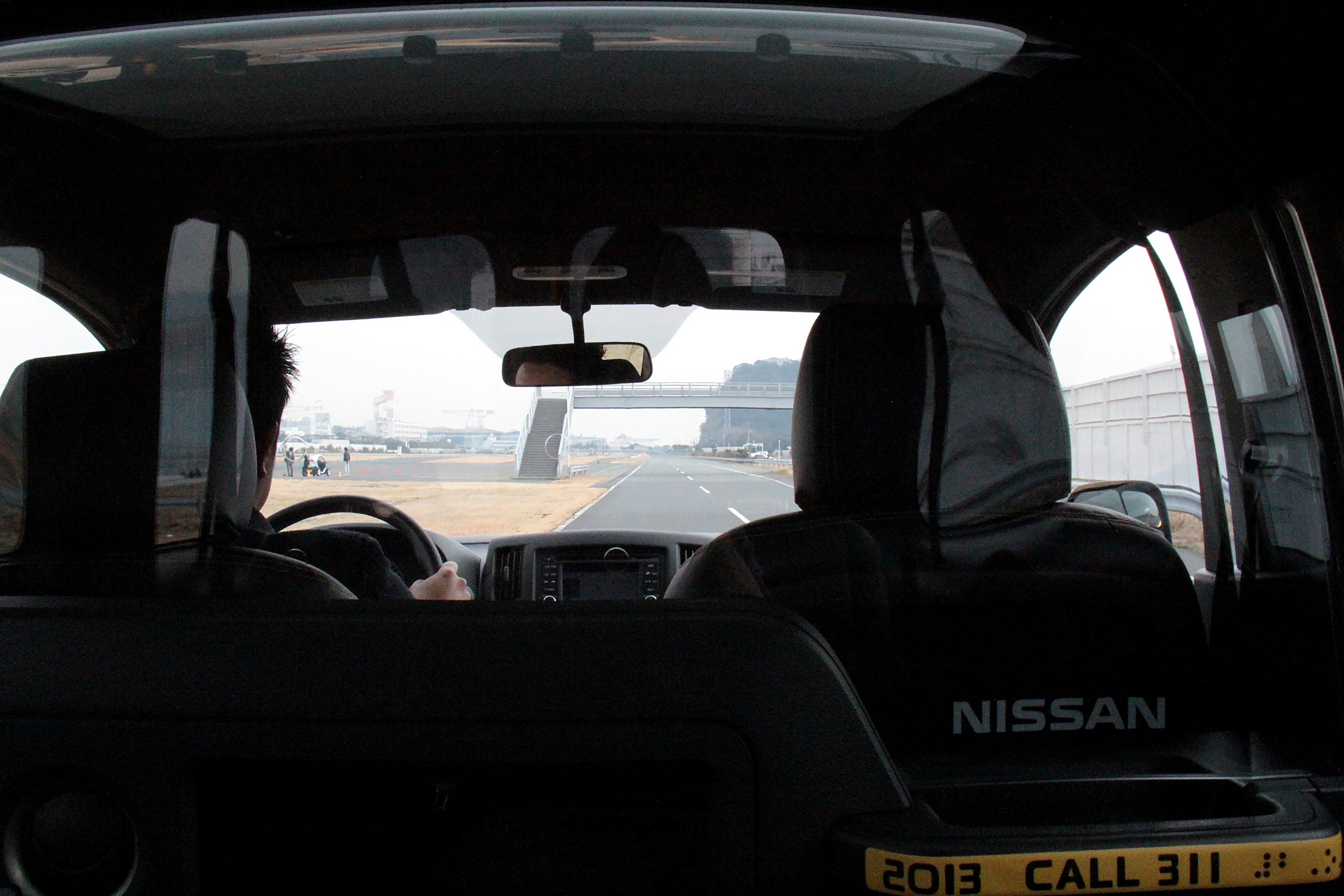 Nissan NV200 New York taxi on test track in Oppama, Japan